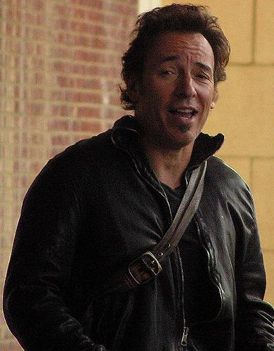 A portrait of Bruce Springsteen on the ramp leading out of Convention Hall on the northwest side in Asbury Park, New Jersey.